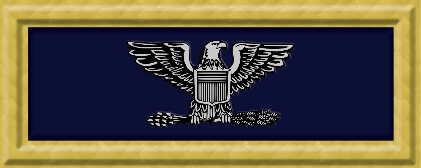 Colonel rank insignia for the United States Army, Air Force, and Marine Corps.